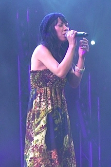 Kanako Itō at the Anime Festival Asia 2011 Stage Events in Singapore